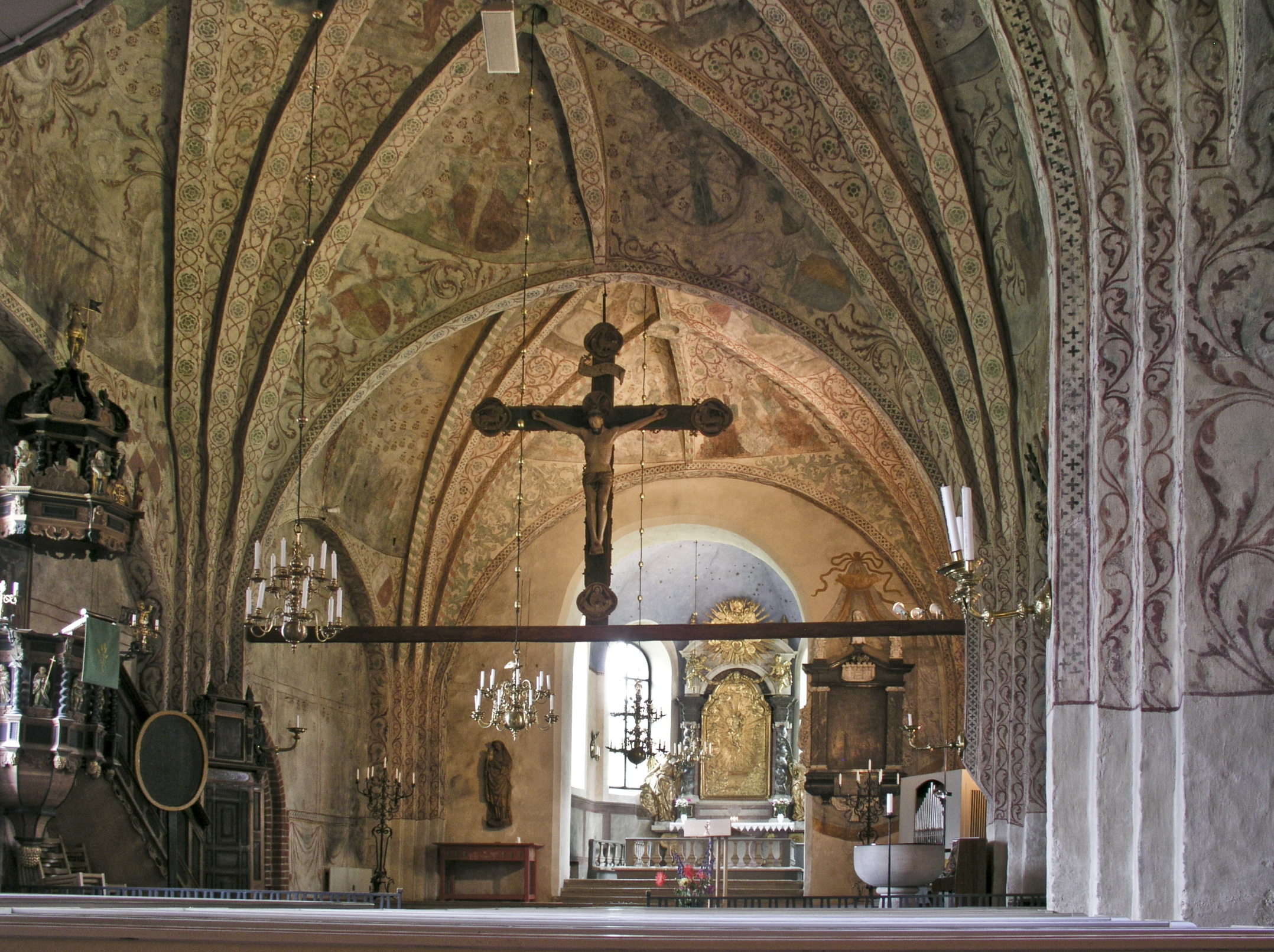 Ösmo church, Sweden. Nave.